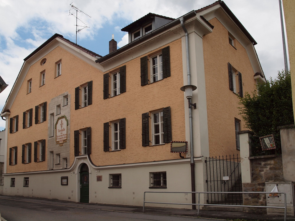 Gym “Jahnturnhalle” in Passau, Germany